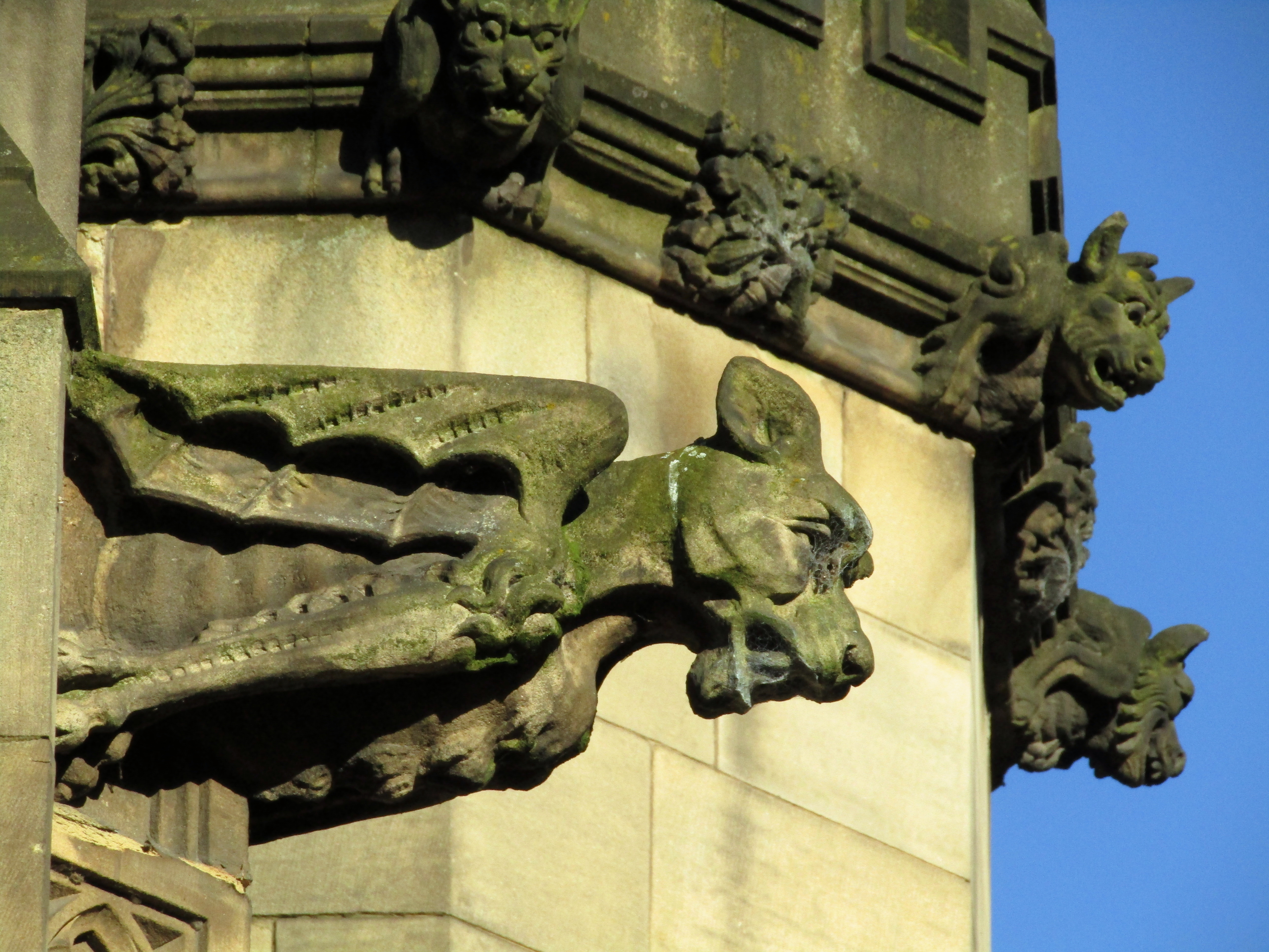 Manchester Cathedral, detail of facade.